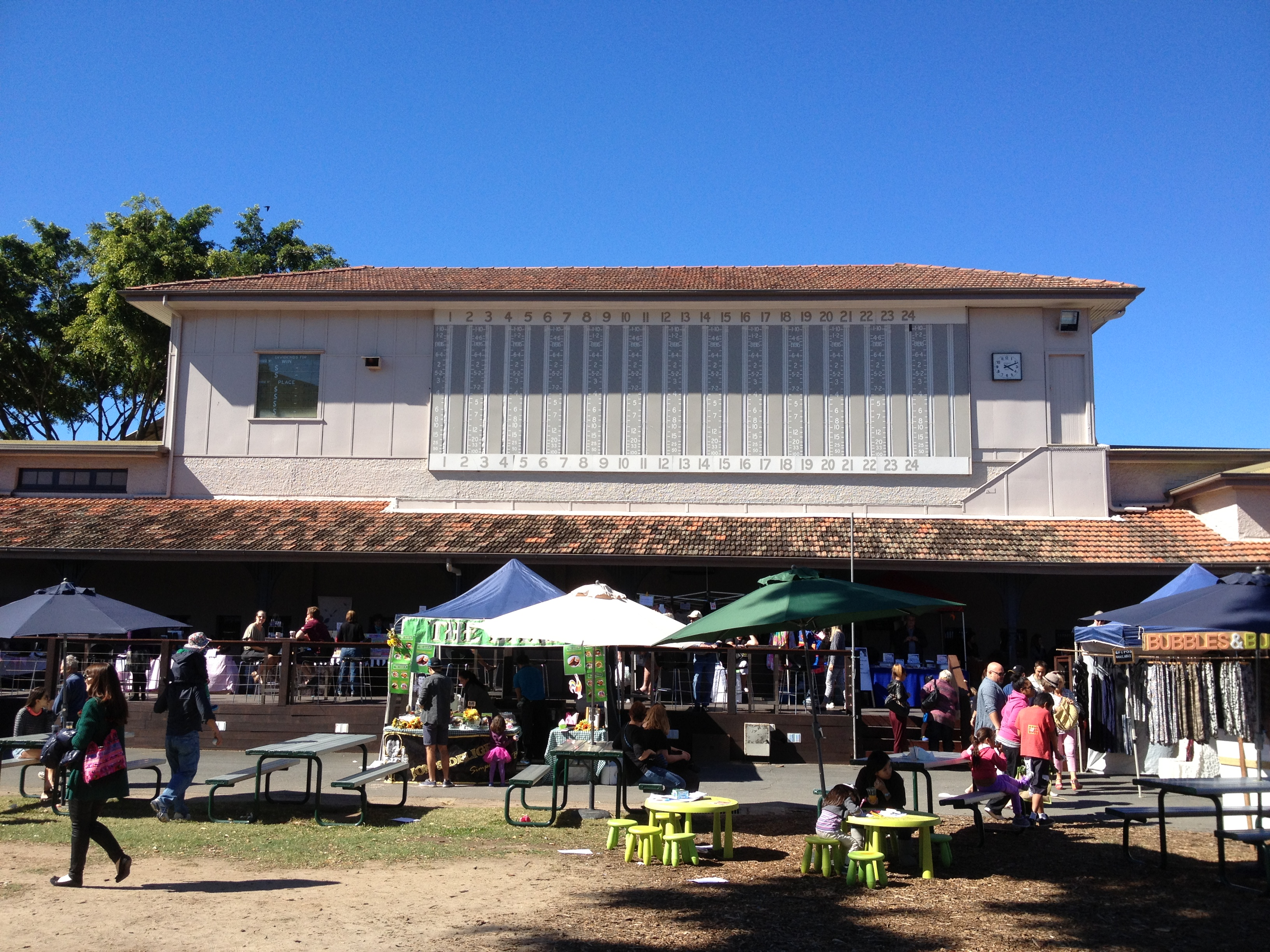 The Tote with Race board, Eagle Farm Racecource, May 2013